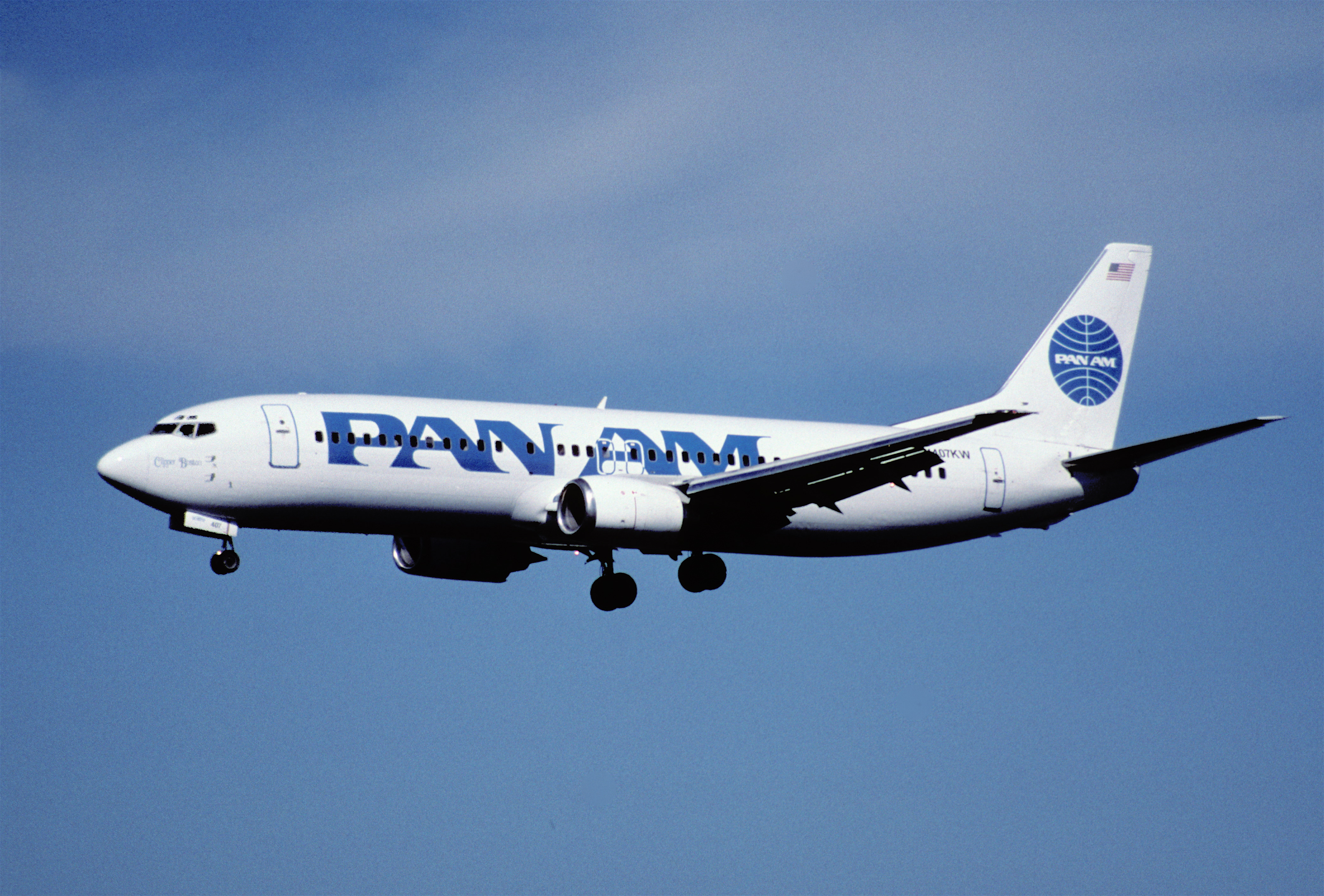 First flight: February 23, 1990... 10/03/1990 Malaysia Airlines 9M-MJA 08/02/1994 Braathens LN-BUB 28/11/1996 Carnival Airlines N407KW 01/10/1997 Pan Am N407KW 03/06/1998 Olympic Airways SX-BKH 12/12/2003 Olympic Airlines SX-BKH ceased operations September 29, 2009